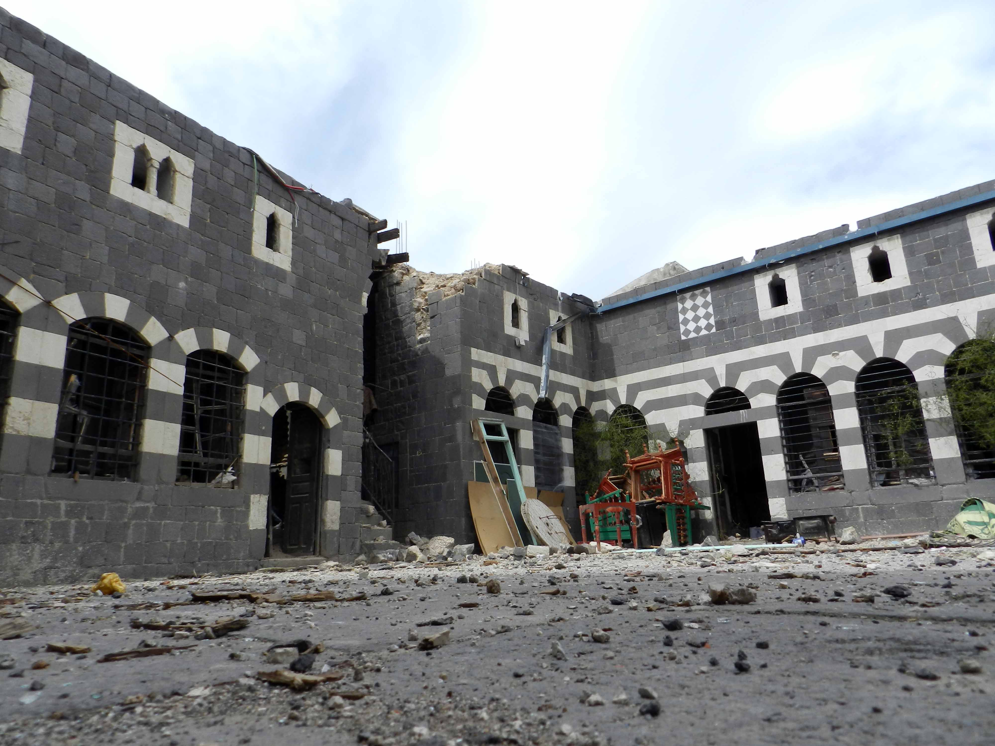 Destruction in Bab Dreeb area in Homs, Syria (2012).